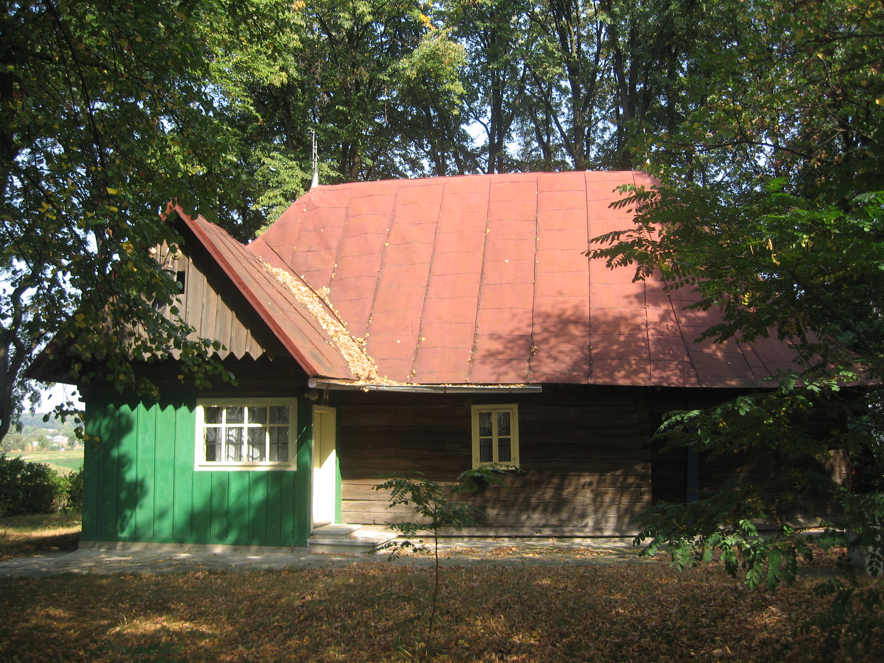 Biserica de lemn din Mitocaşi 01